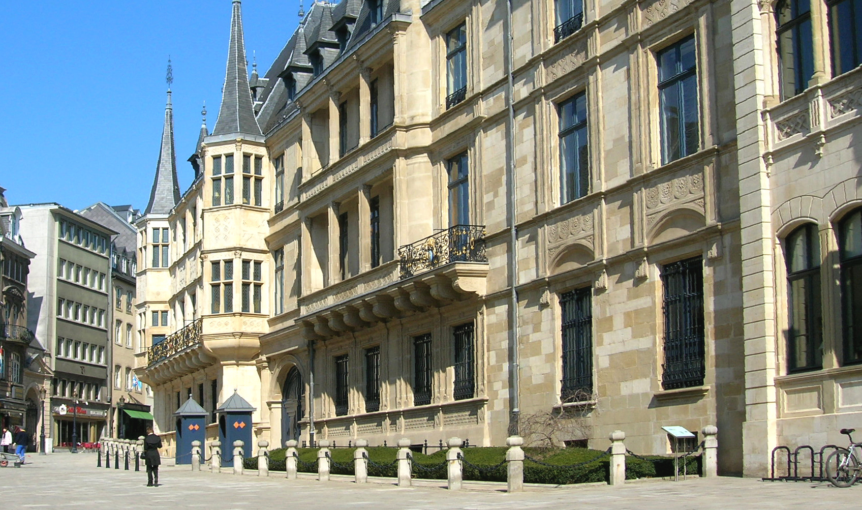 The Grand Ducal Palace, in Luxembourg City, Luxembourg.